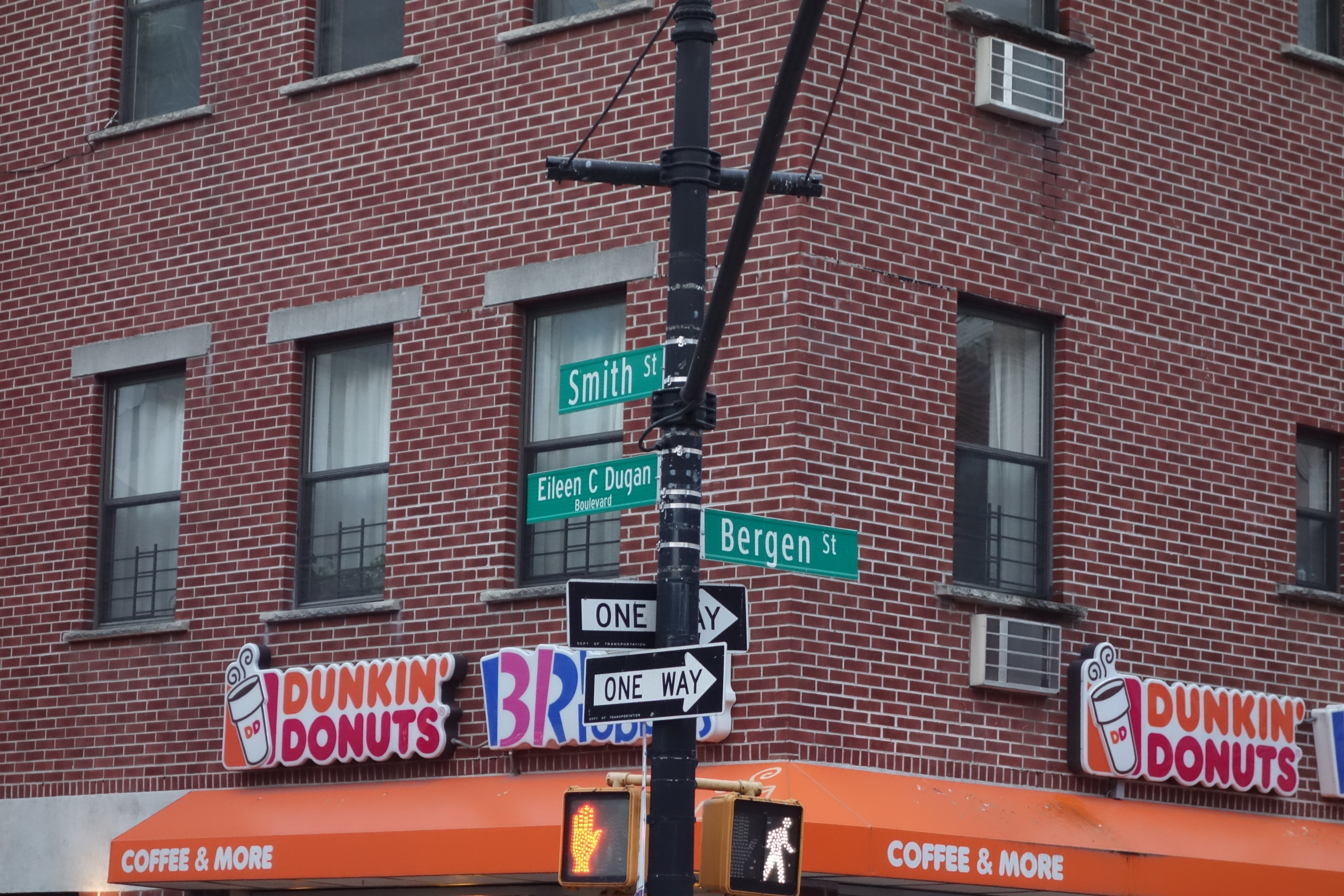 Street signs at the southwest corner of Bergen Street and Smith Street in Boerum Hill, Brooklyn, near Downtown Brooklyn, Cobble Hill, Carroll Gardens, and Gowanus. Smith Street is co-named Eileen C. Dugan Boulevard; Dugan was a resident of Carroll Gardens who served a New York State Assemblywoman.